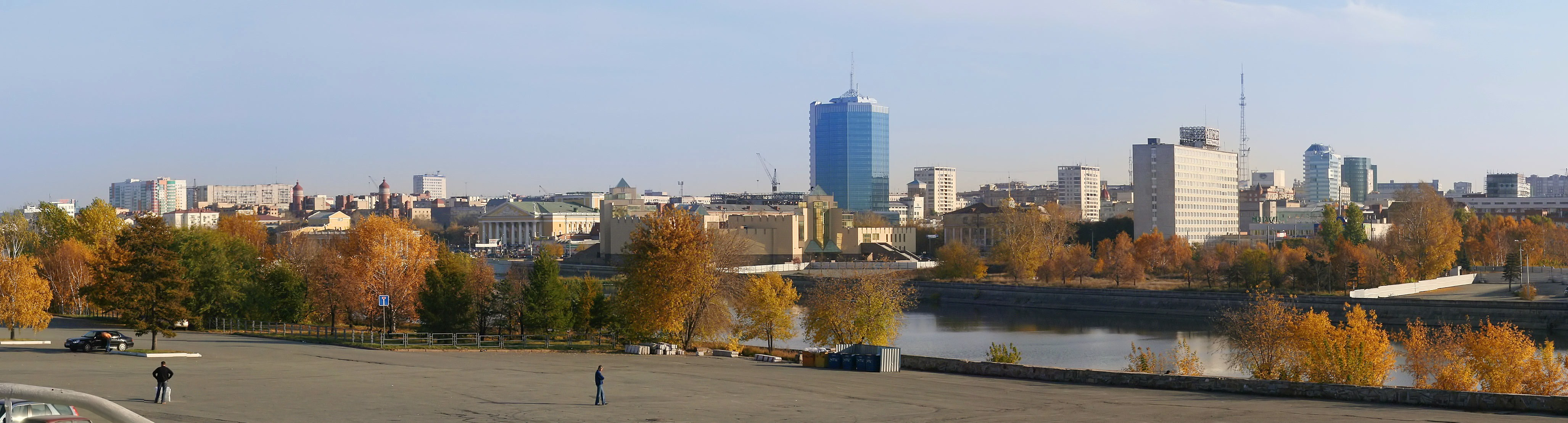 Chelyabinsk